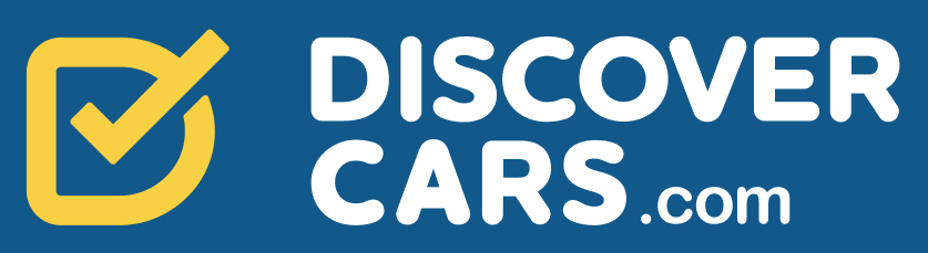 company logo (white with blue background)